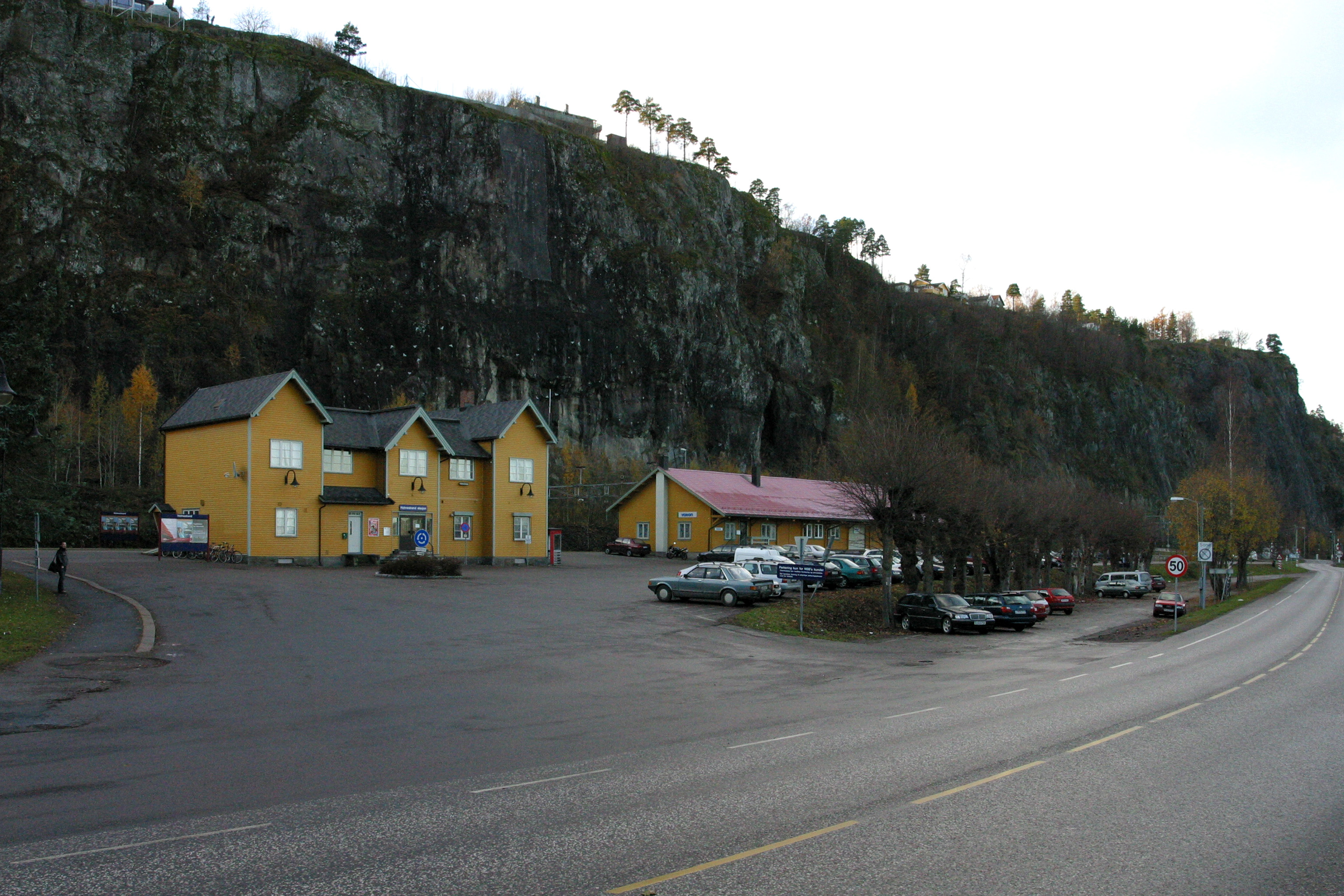 Picture of Holmestrand Railway Station (Norway)